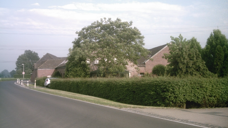 Farm buildings in Donk, Viersen, Germany.